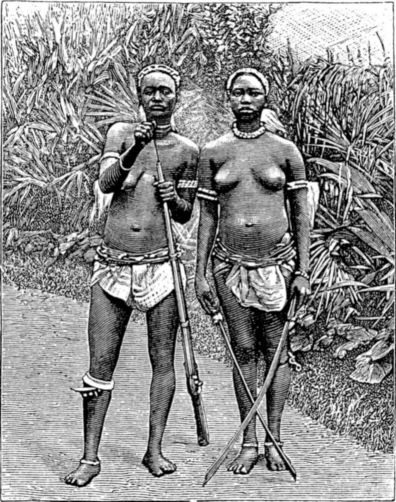 drawing of female Royal Guards of King of Dahomey